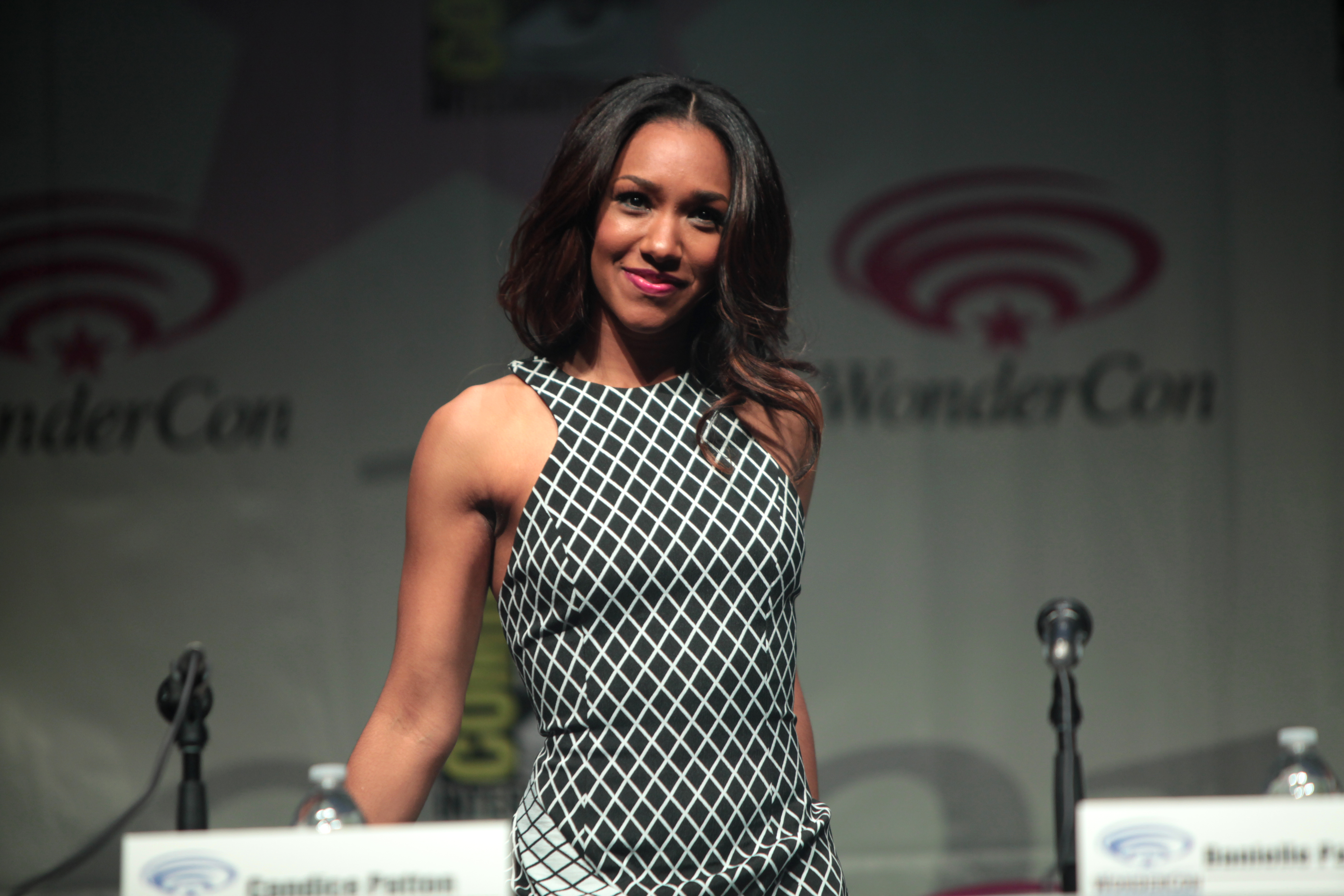 Candice Patton speaking at the 2015 Wondercon, for "The Flash", at the Anaheim Convention Center in Anaheim, California.